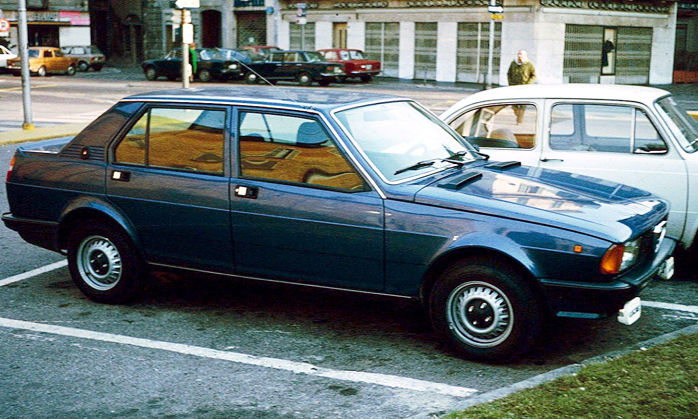 Alfa Romeo Giulietta early version photographed in Como shortly after the model's launch